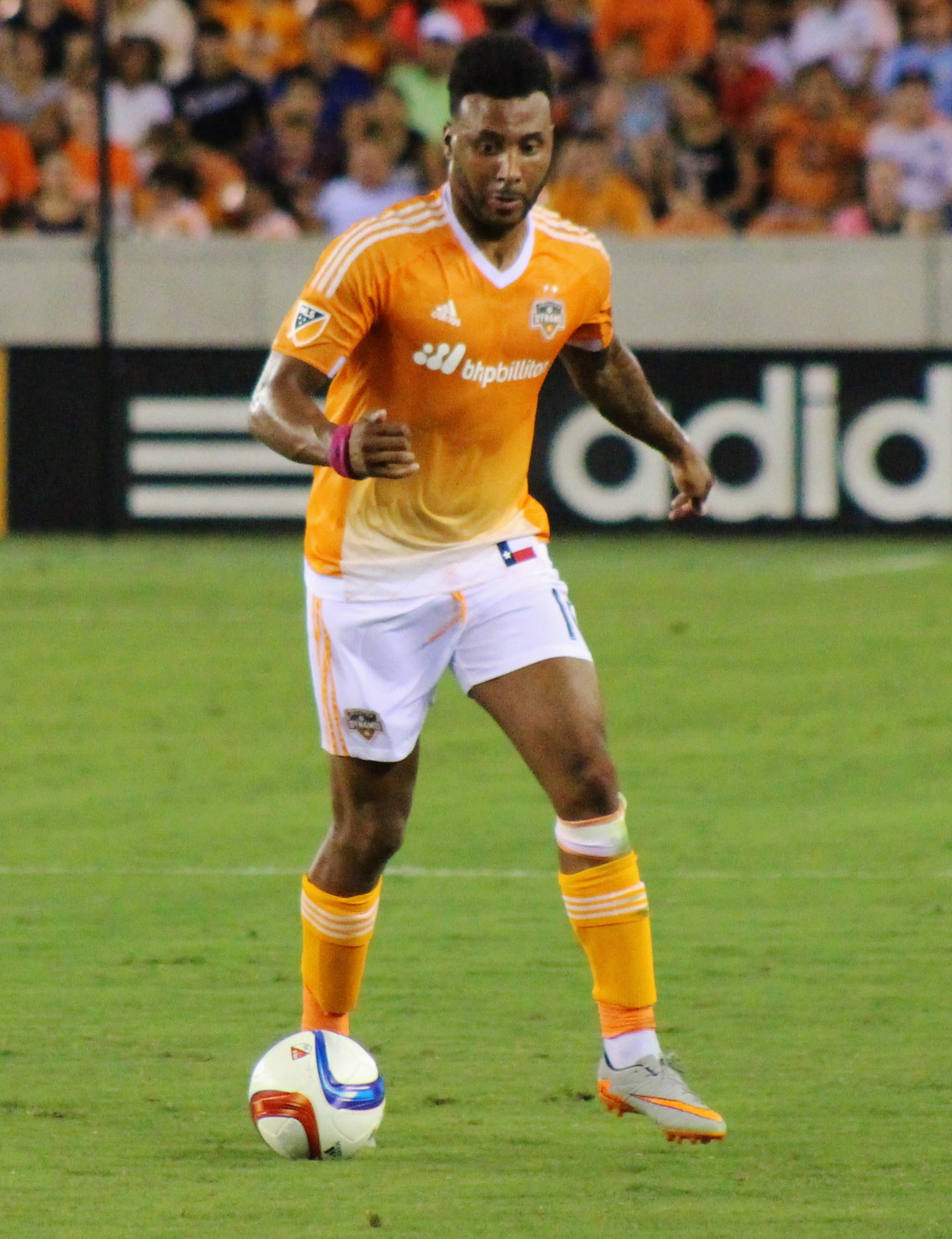 Giles Barnes